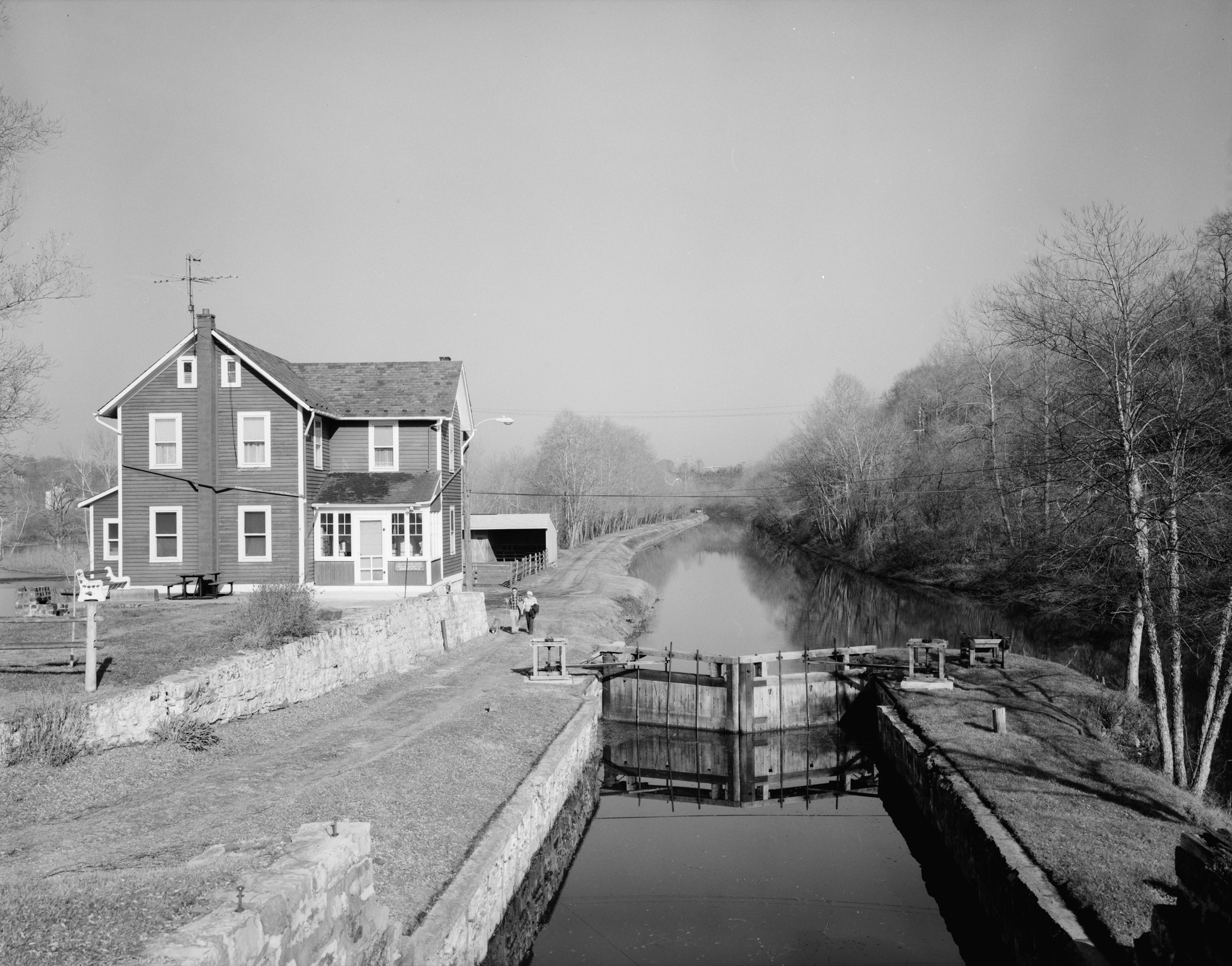 A view of the Lehigh Canal from Guard Lock 8 & Lockhouse, Island Park Road, Glendon, Northampton County, Pennsylvania.